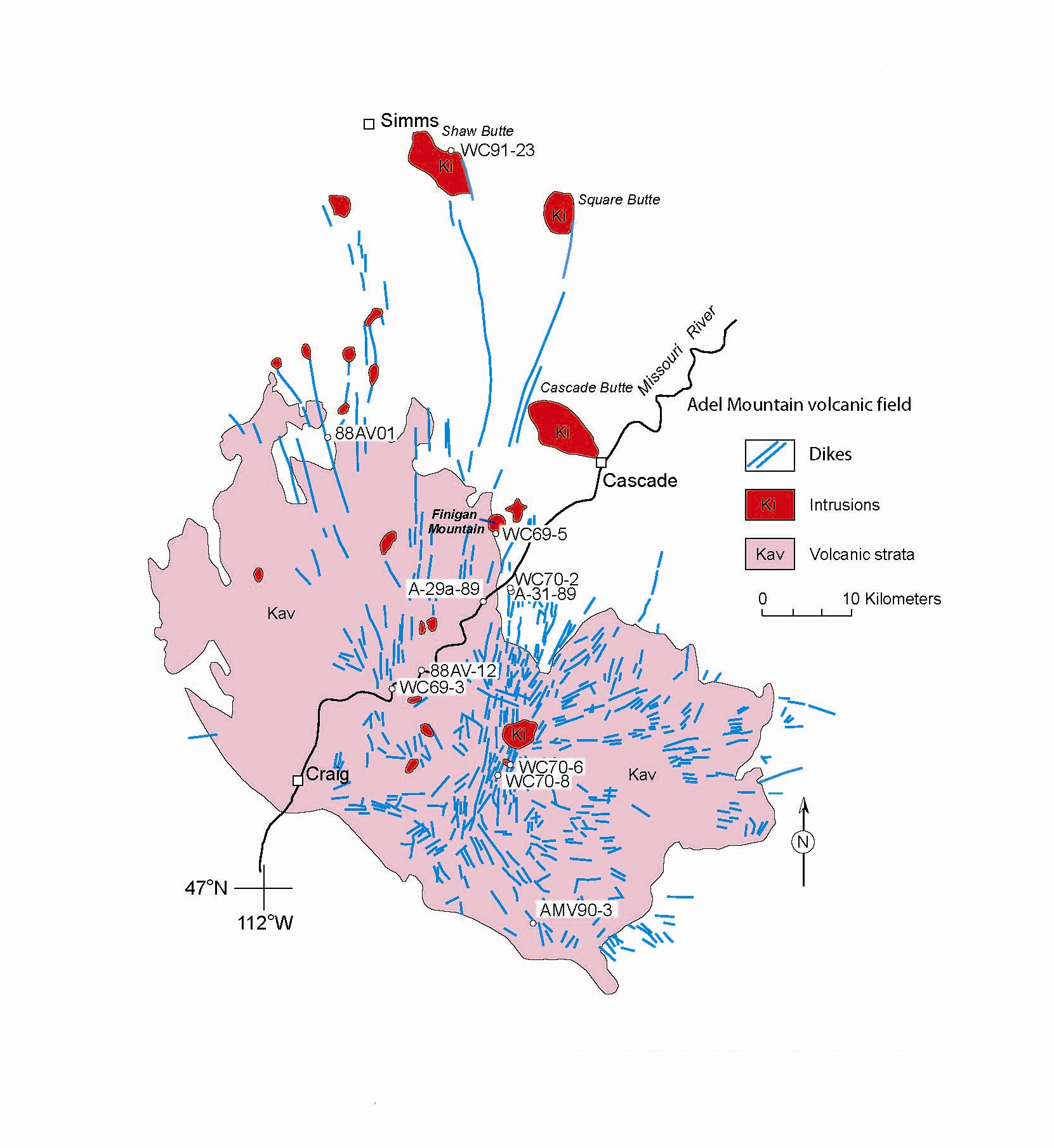 Simplified geologic map of the Adel Mountain volcanic field. From: Stephen S. Harlan, Lawrence W. Snee, Mitchell W. Reynolds, Harald H. Mehnert, R.G. Schmidt, Steve D. Sheriff, and Anthony J. Irving. "40Ar/39Ar and K-Ar Geochronology and Tectonic Significance of the Upper Cretaceous Adel Mountain Volcanics and Spatially Associated Tertiary Igneous Rocks, Northwestern Montana." Professional Paper 1696. U.S. Department of the Interior, U.S. Geological Survey. Reston, Virginia: 2005